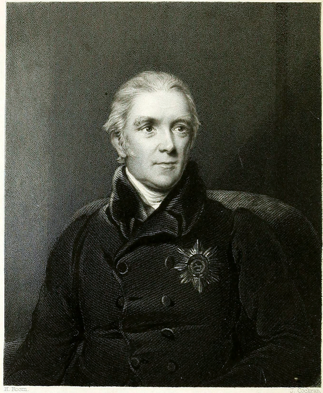 Etching portrait of Sir Henry Halford, 1st Baronet (1766-1844) from the book "Medical portrait gallery : biographical memoirs of the most celebrated physicians, surgeons, etc., etc., who have contributed to the advancement of medical science". Book contributor: Royal College of Physicians in Edinburgh. Digitizing sponsor: Jisc and Wellcome Library